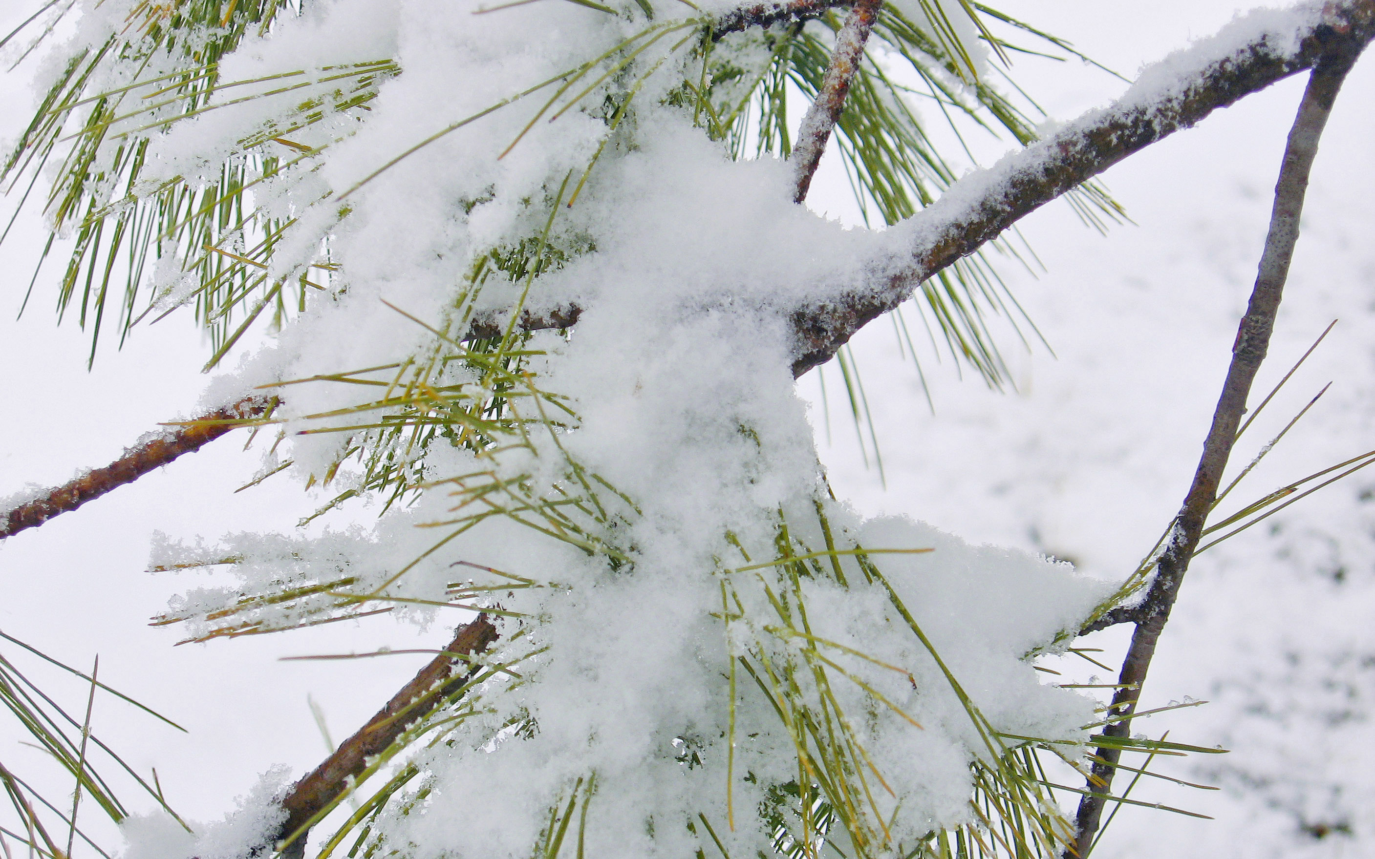 User:Sbn1984/Image template